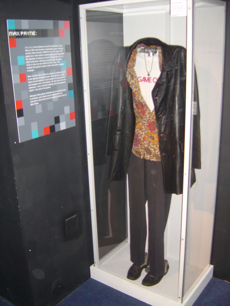 Clothes for the character Max Payne of the video game series Max Payne.